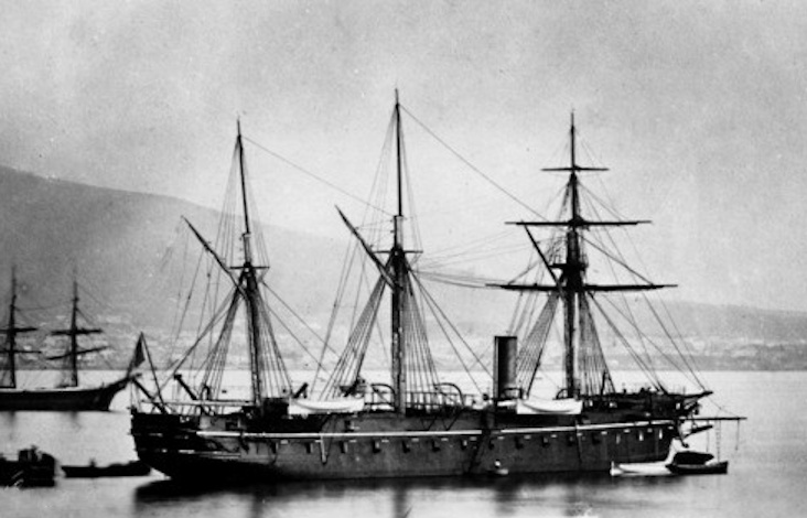 Italian broadside ironclad Principe di Carignano, at anchor in Naples in 1867